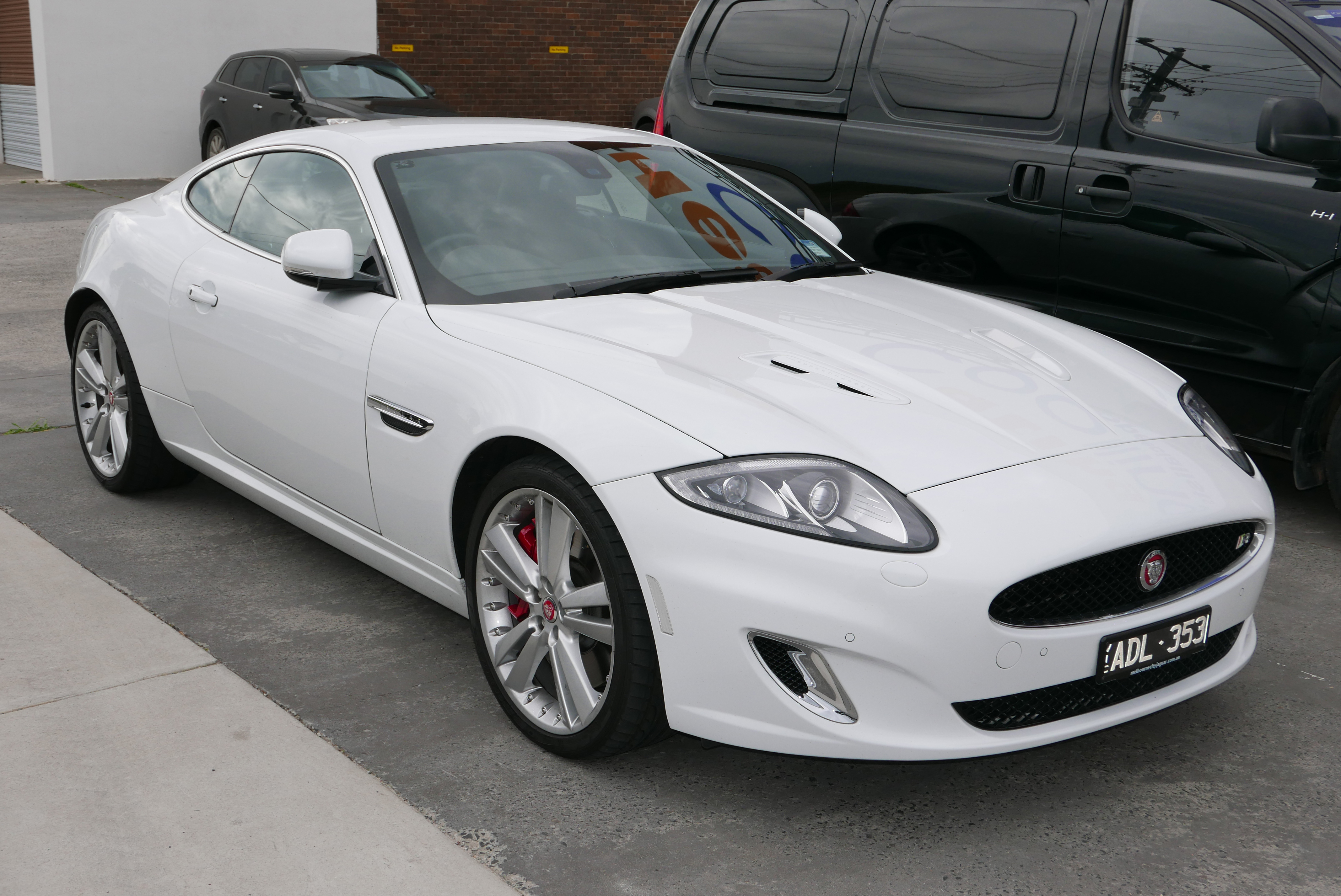 2014 Jaguar XKR (X150 MY15) coupe. Photographed in Dingley Village, Victoria, Australia. Vehicle registration enquiry results Jurisdiction Victoria Registration ADL353 Chassis code SAJAC43R2EMB54193 Engine code 13110504512508PS Compliance date 2014-04 Year of manufacture 2014